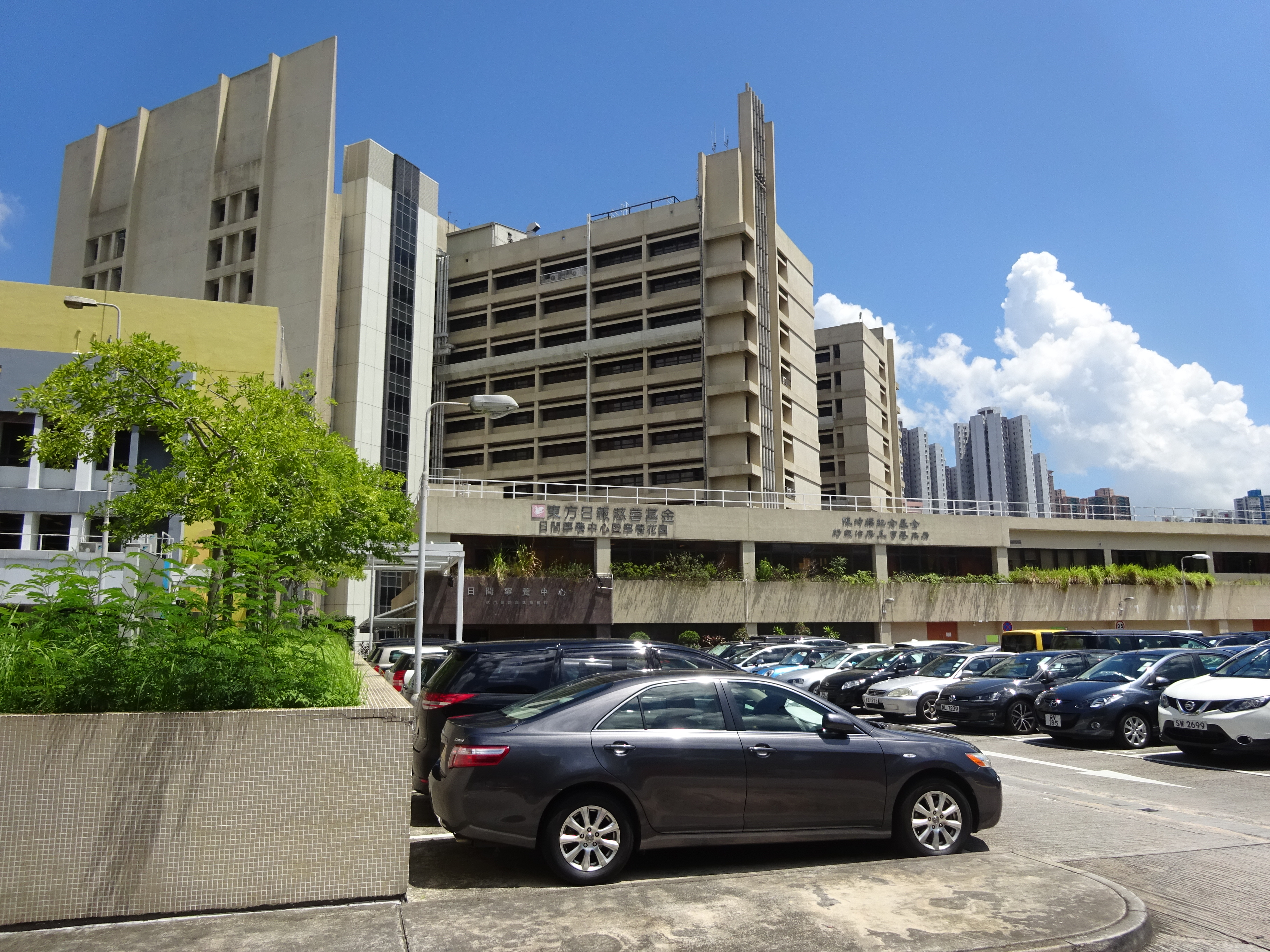 HK 屯門醫院 Tuen Mun Hospital in July 2016